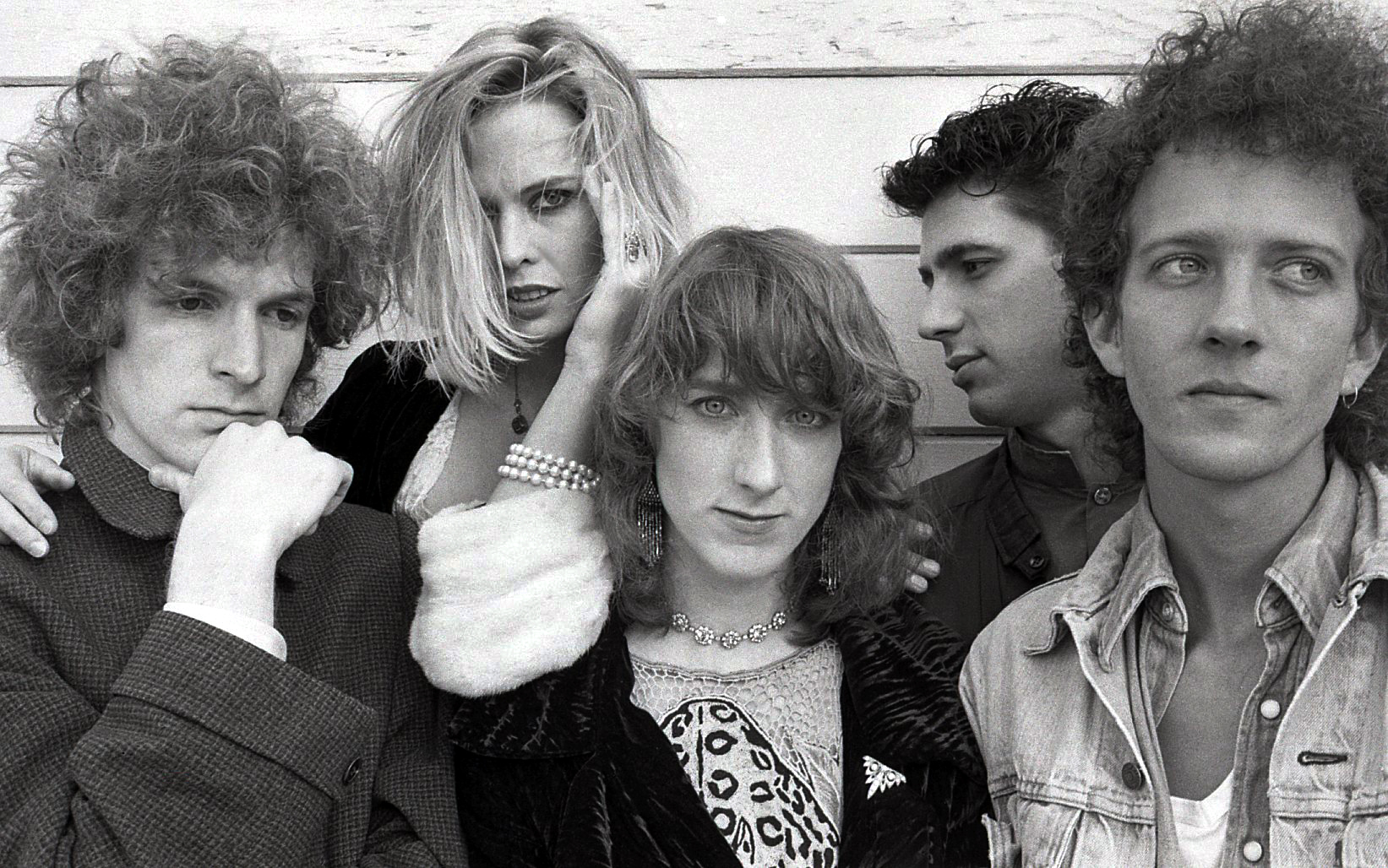 California rock band Game Theory in 1986. Left to right: Scott Miller, Donnette Thayer, Shelley LaFreniere, Guillaume Gassuan, Gil Ray. Photo by Robert Toren (aka Photo Robert).